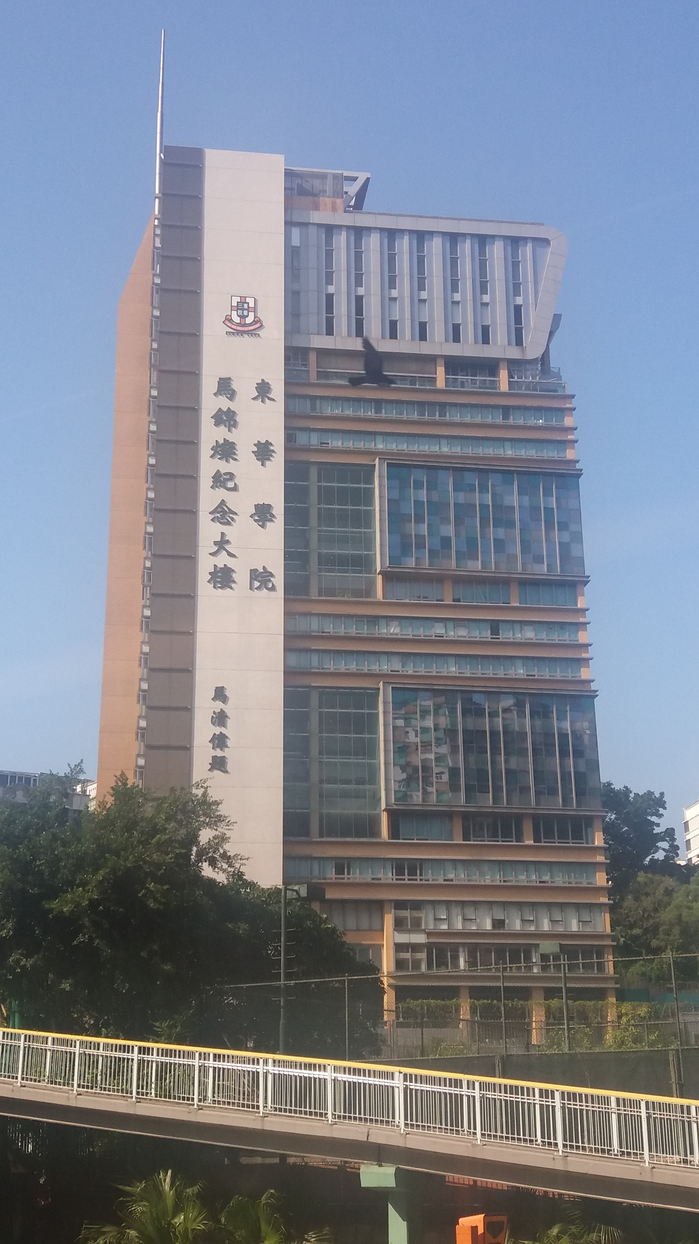 Tung Wah College King's Park Campus (Nov 2019)